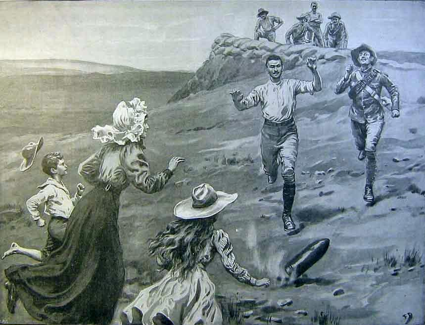 Print from magazine The Graphic, February 1900. Caption: 'The light side of the siege of Mafeking: running after a spent shell'